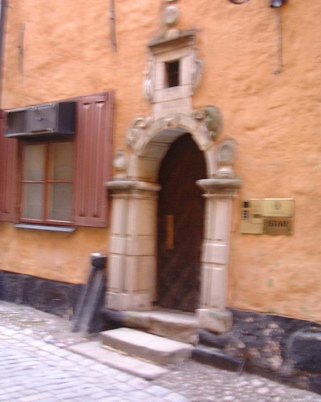 A so called trumba (e.g. a medieval waste pipe) at 2, Nygränd, Gamla stan, Stockholm.